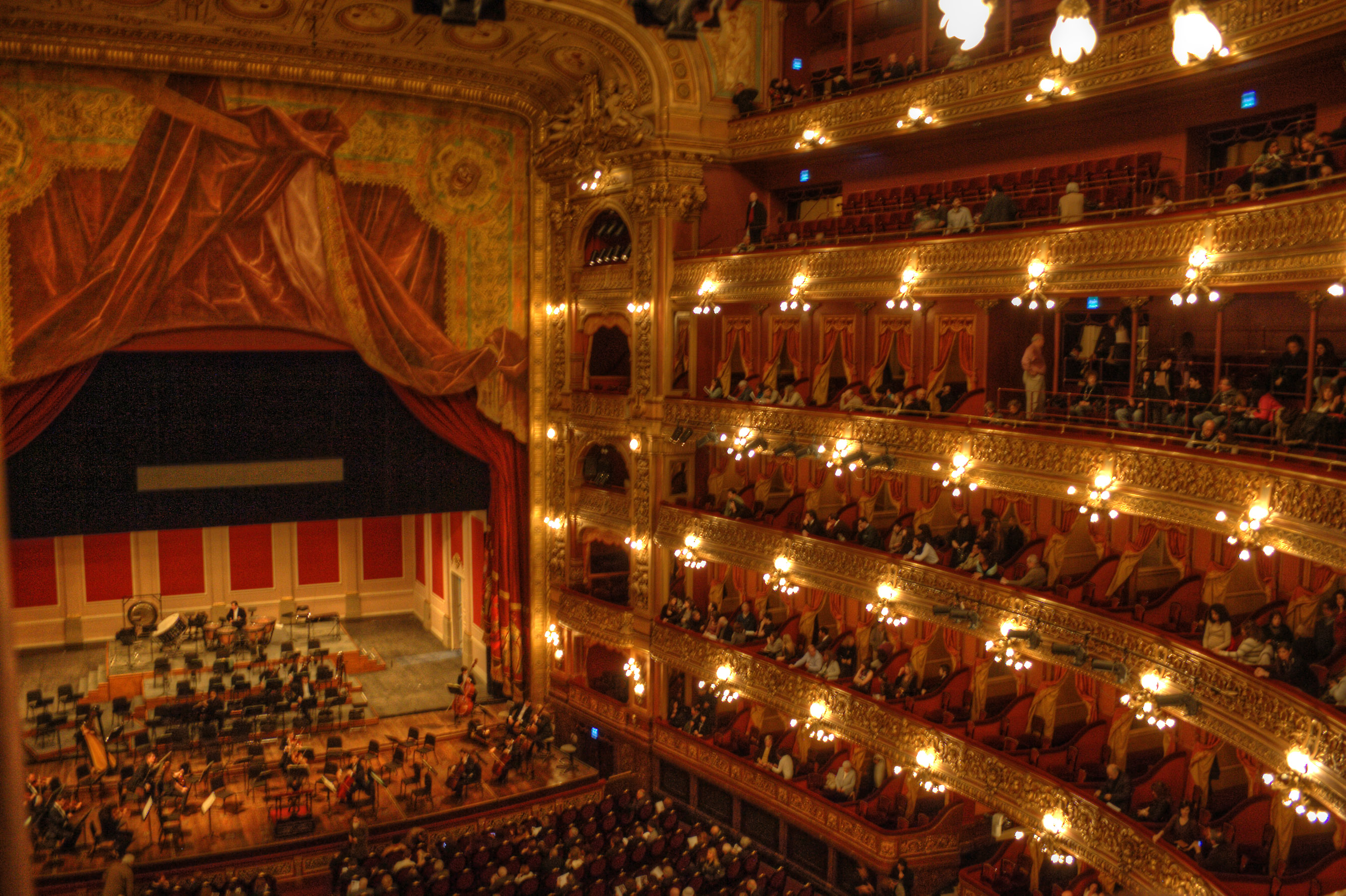 Interior of the Teatro Colón in Buenos Aires, Argentina